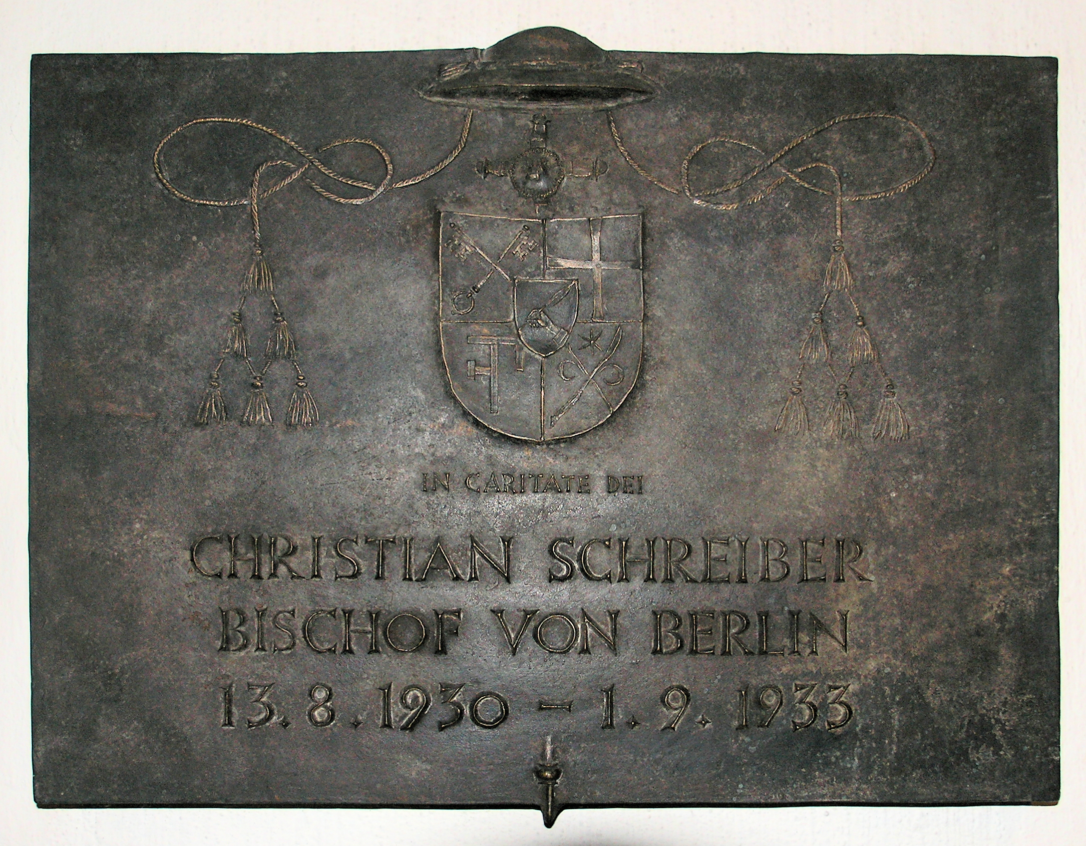 Grave marker for Christian Schreiber in St Hedwig Cathedral Berlin (Address: Hinter der Katholischen Kirche 3, Berlin-Mitte, Germany)